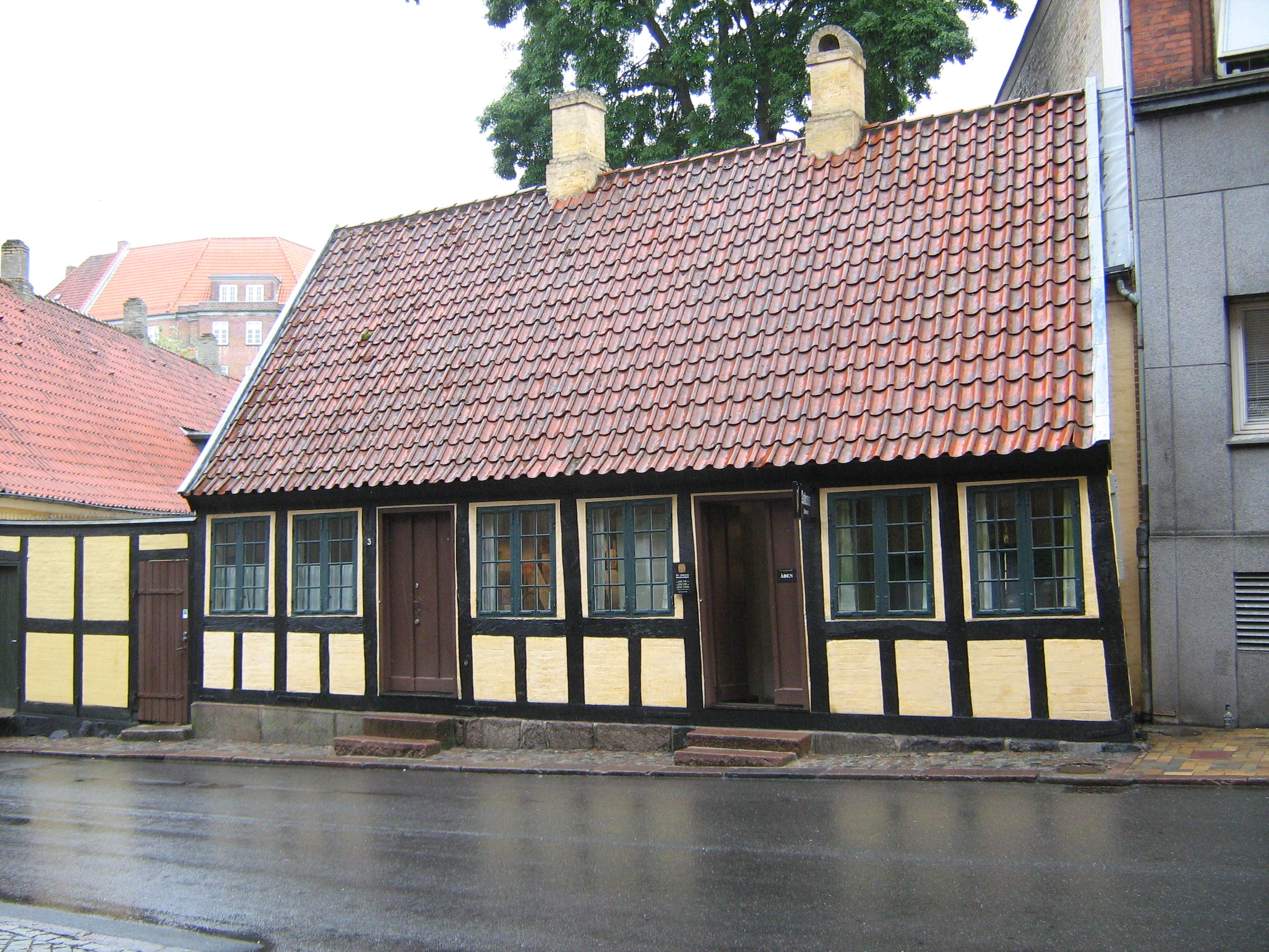 Hans Christian Andersen's childhood home, Munkemøllestræde 3-5, Odense, Denmark. Andersen lived here until 1819 when he was 14 years old.